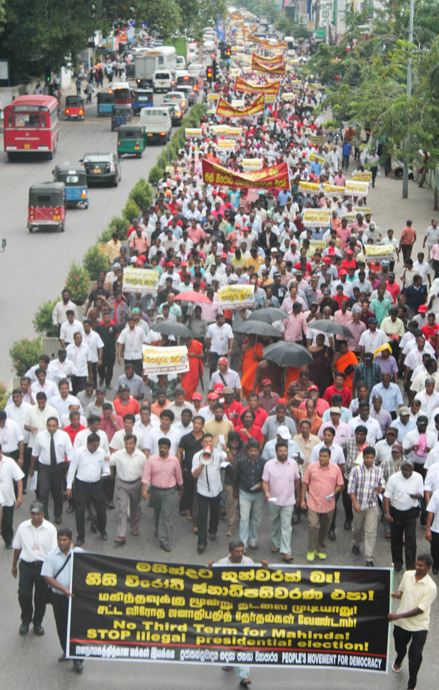 IMG_5479 "Abolish Executive Presidency" protest organised by the People's Movement for Democracy in Colombo, Sri Lanka on 18 November 2014